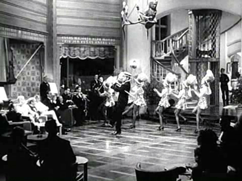 Clark Gable dancing to "Puttin' on the Ritz" in the film Idiot's Delight